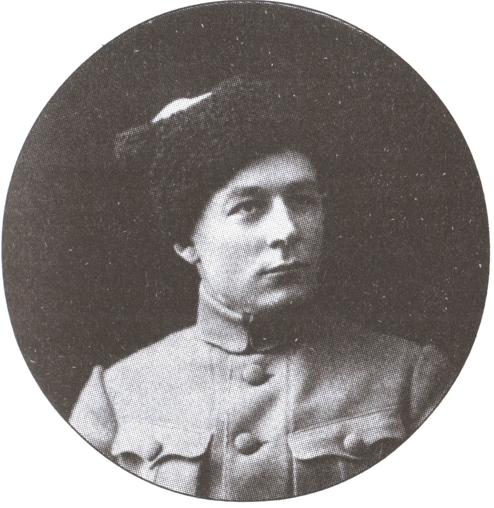 Boris Mokiyovych Dumenko, commander of the Horse Corps of the 1st Horse Army